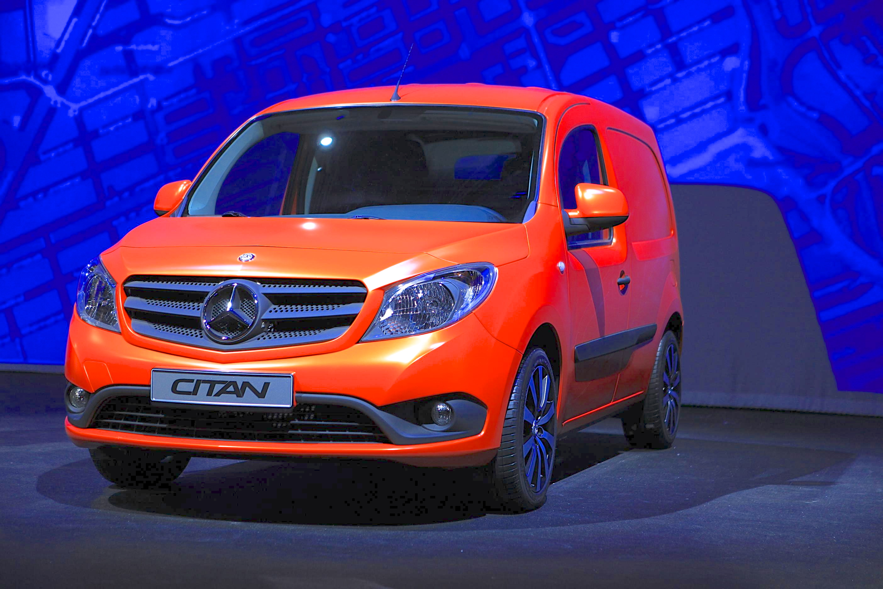 Mercedes-Benz Citan world premiere